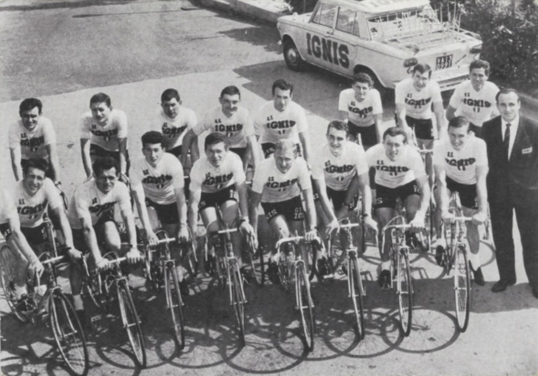 Ignis cycling team 1964 postcard